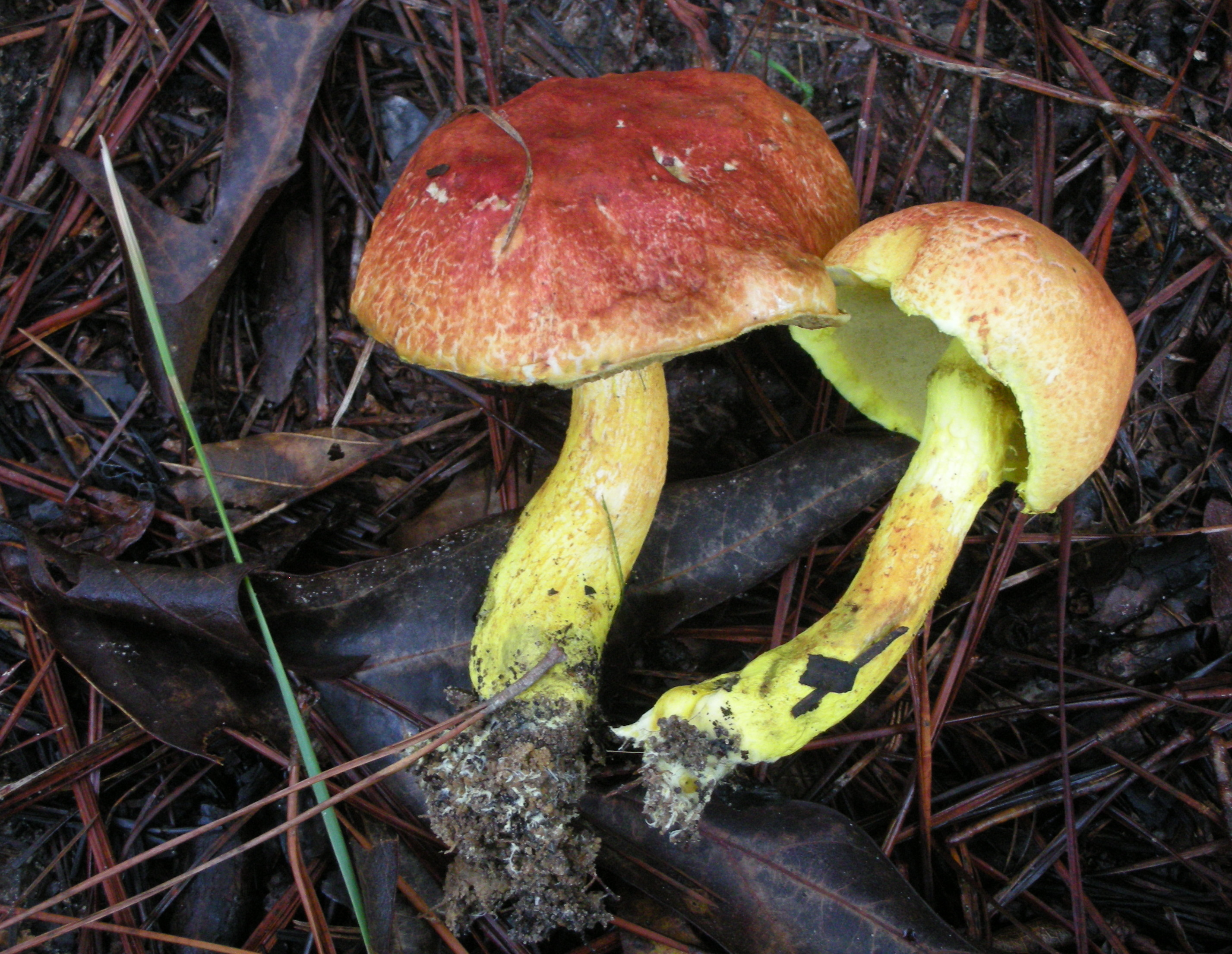 The fungus Pulveroboletus ravenelii (Berk. & M.A. Curtis) Murrill. Specimens photographed in Big Thicket, Polk Co., Texas, USA.